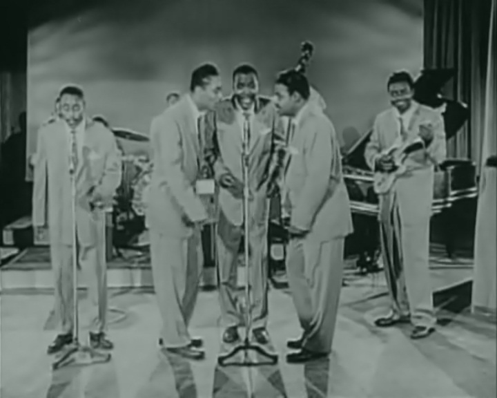 An image of The Clovers captured as a single frame from the Public Domain show "Rock 'n' Roll Revue" 1955 at the Internet Archive.